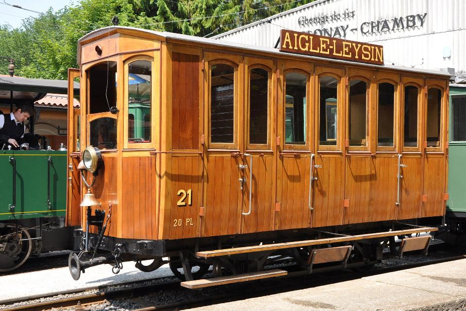 Compartment coach with luggage compartment CF2 21 of the Aigle–Leysin Railway (AL) at the Blonay–Chamby Museum Railway (BC) in Chaulin at Summer 2010.